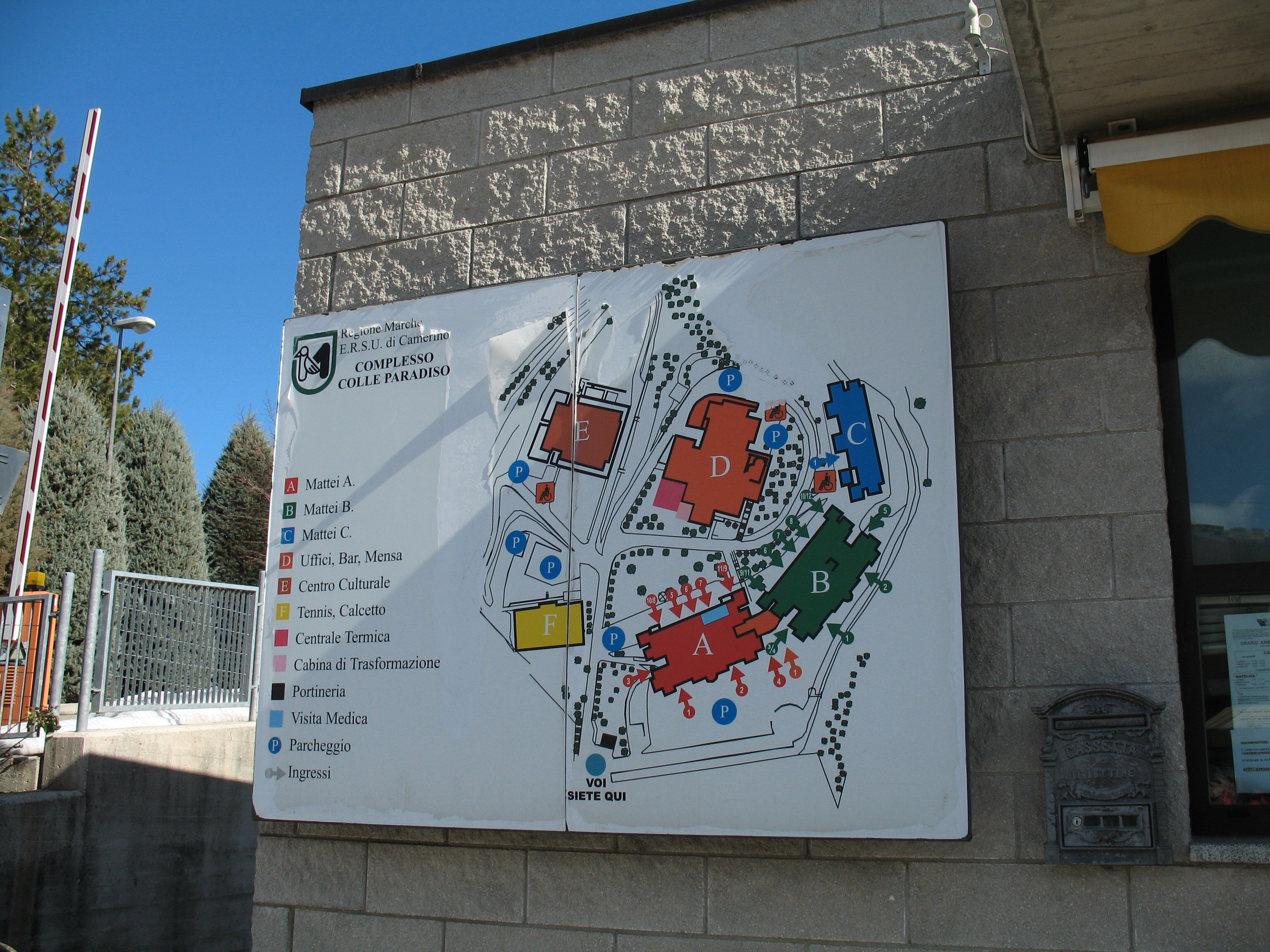 Entrance to campus Mattei